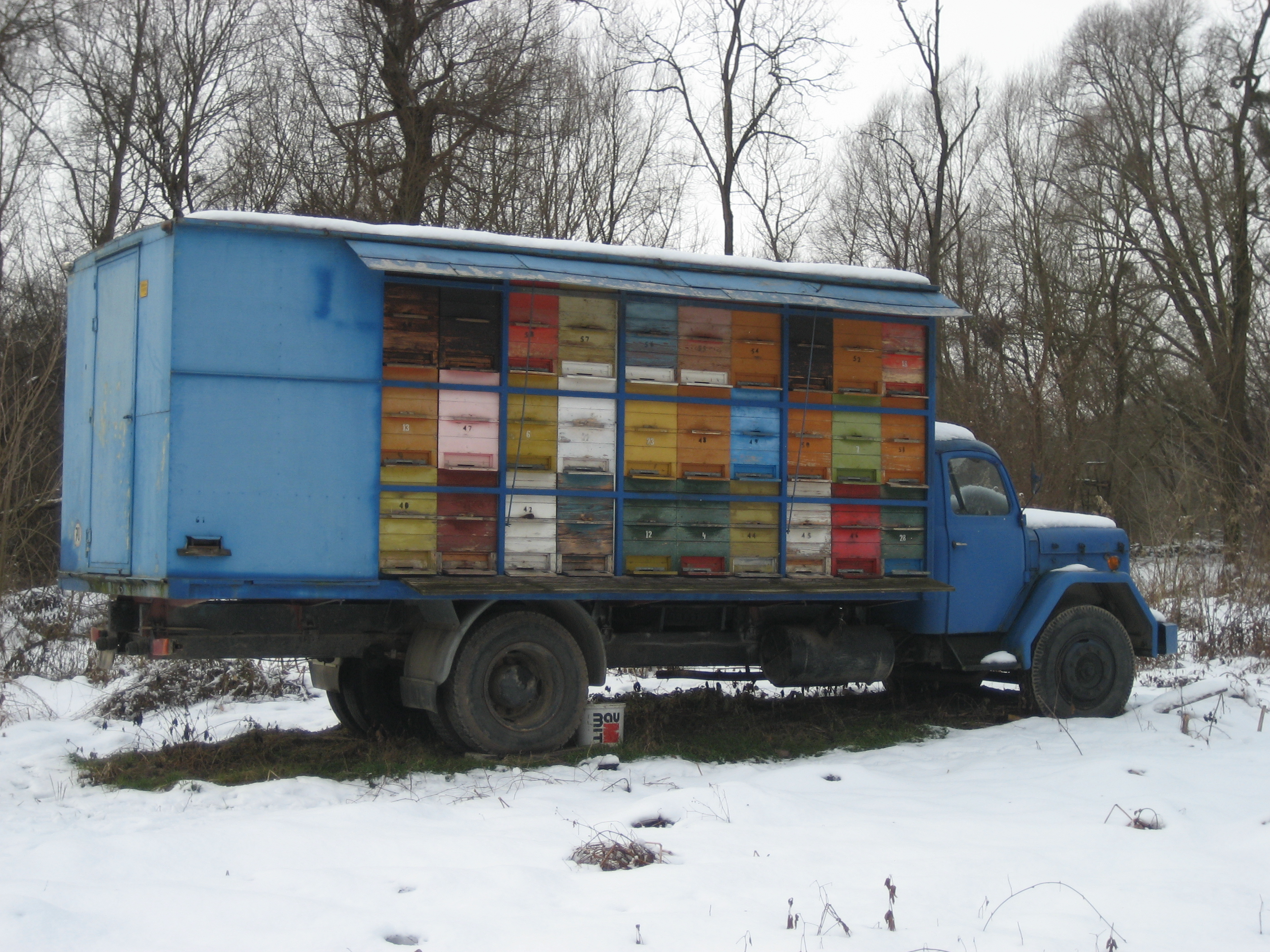 Beehives on a truck near Mota, Slovenia, Europe